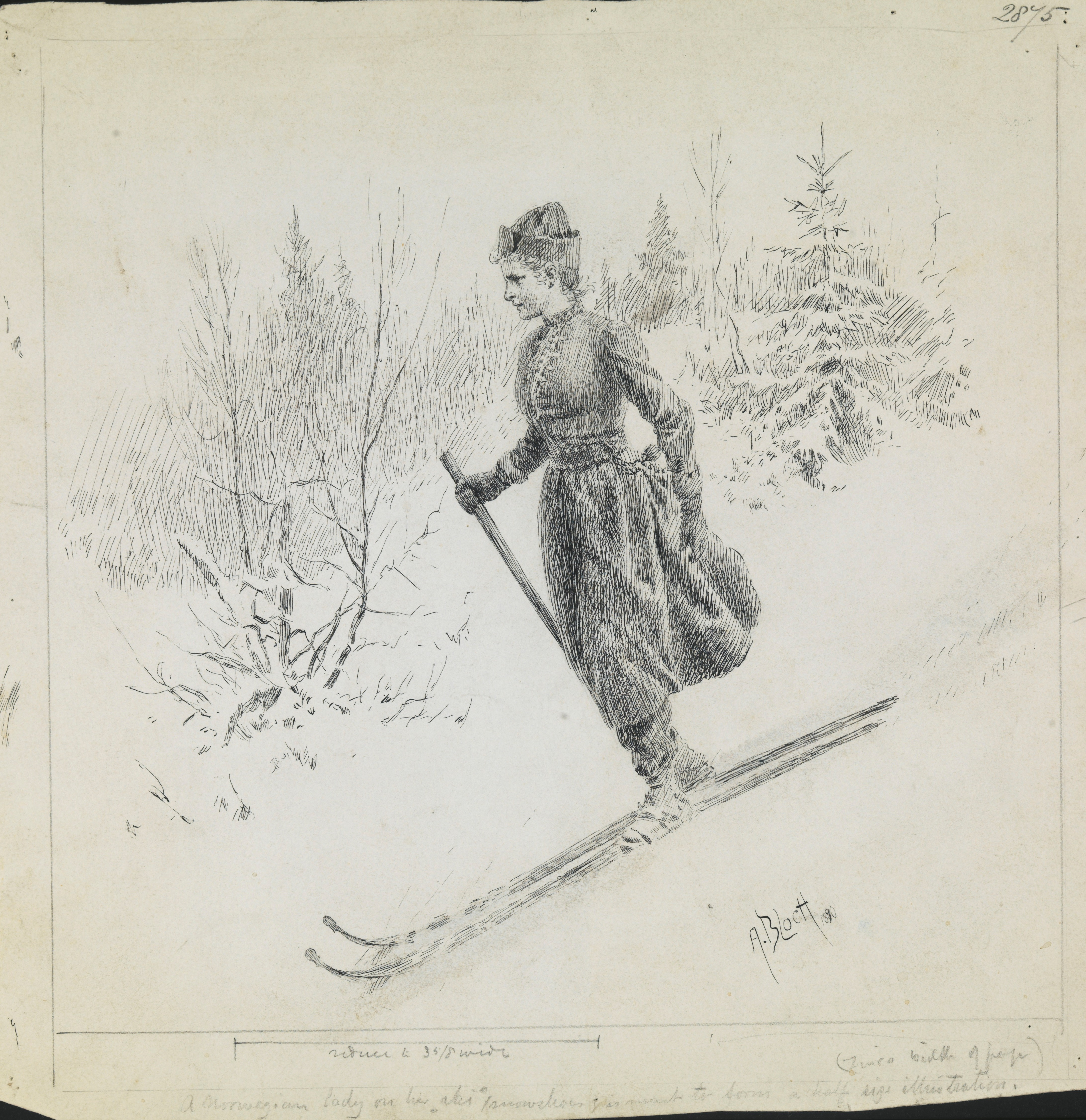 Pen and ink drawing. A woman on skis in the woods. The drawing probably shows Eva Nansen.